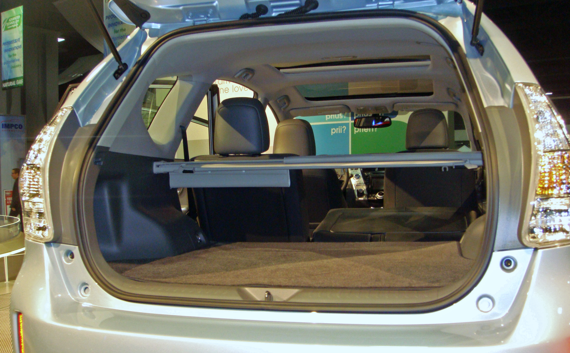 Cargo space in the 2012 Toyota Prius V exhibited at the 2011 Washington Auto Show, Washington D.C.